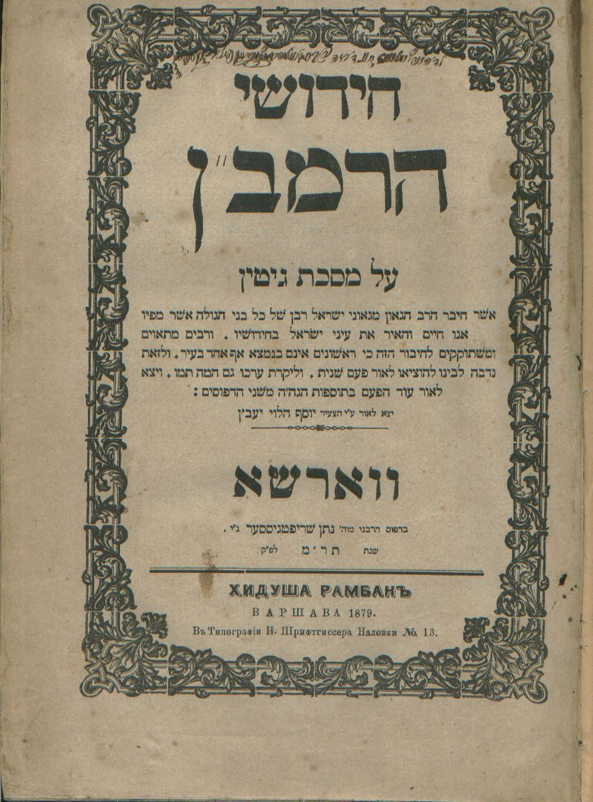 Ramban on Talmud , Warsaw 1880